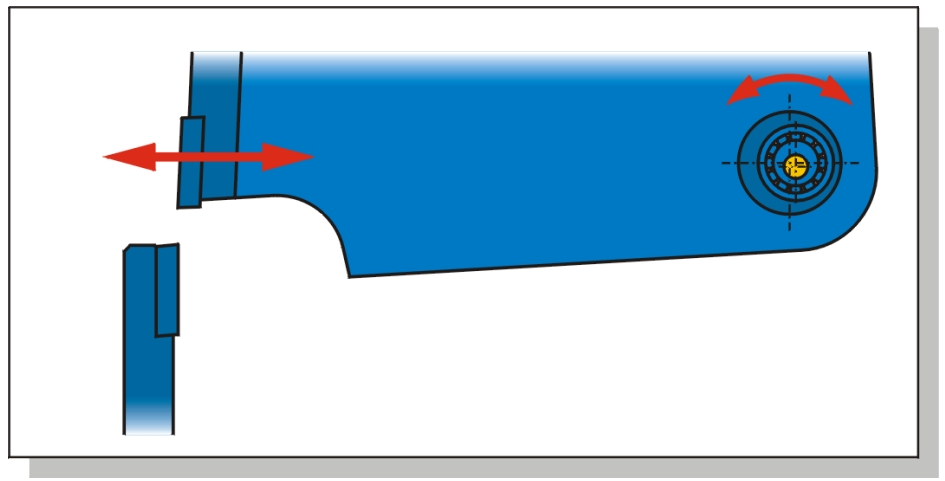 On swing beam shears the blade clearance can be adjusted by turning an eccentric